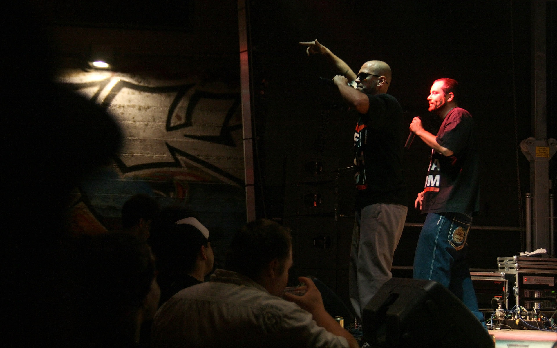 A.geh Wirklich?, Donaukanaltreiben 2012 in Vienna.